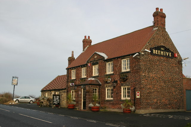 The Beehive public house. (Just adding for intrest, but this pub was used in the filming of The Likely Lads film. Mtaylor848 (talk) 20:27, 16 February 2010 (UTC))